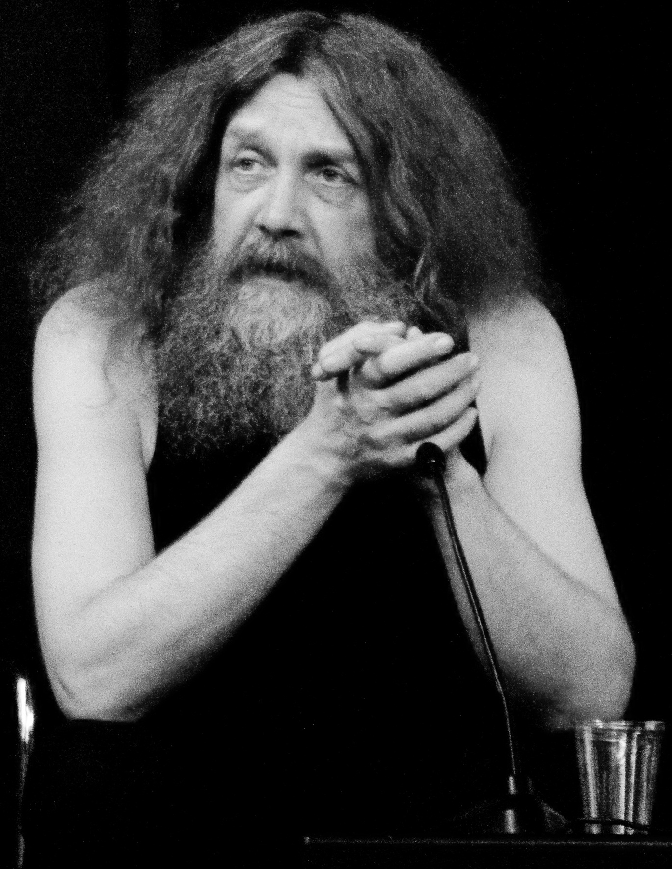 Alan Moore at the ICA (Charing Cross, London, England).